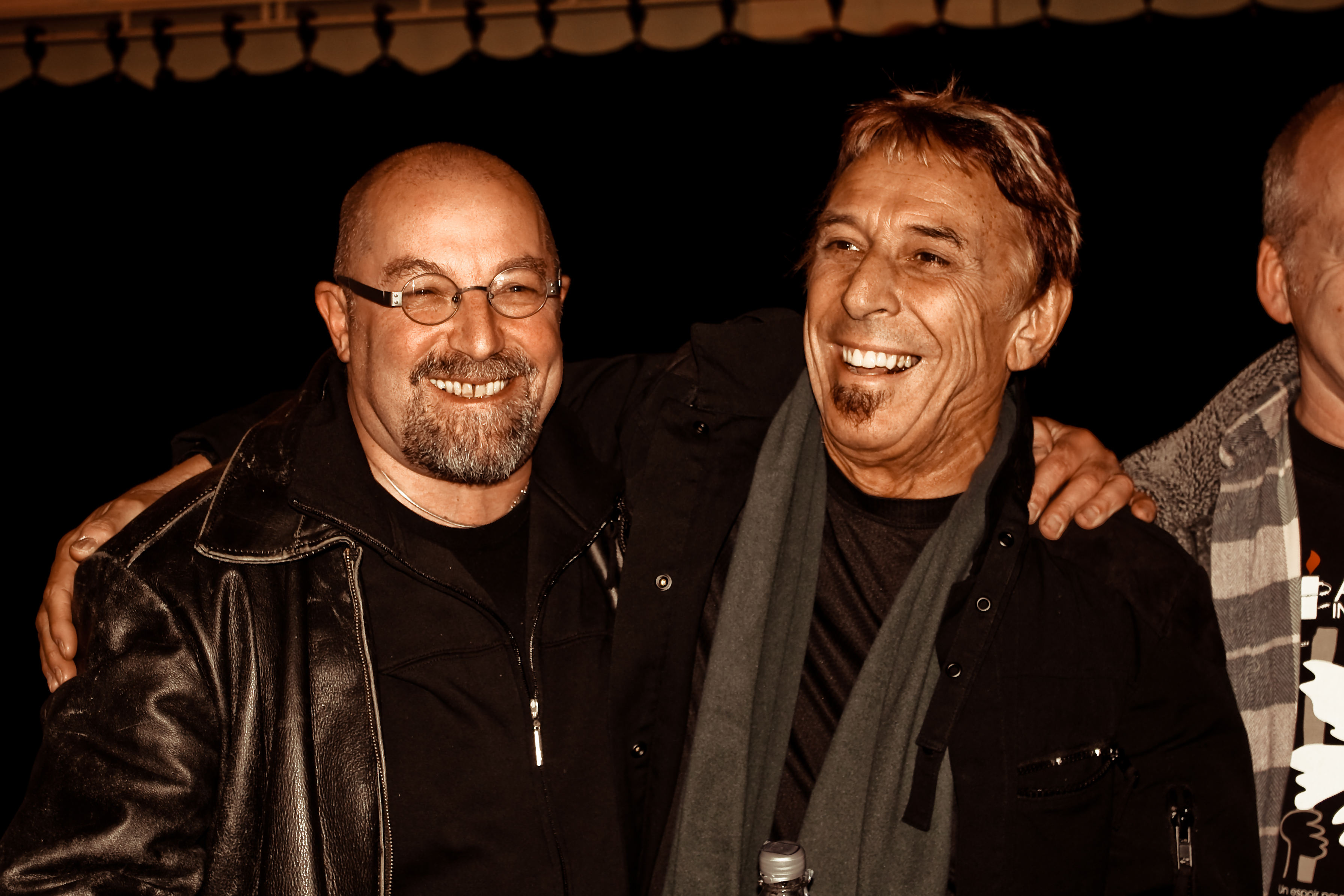 Iwan Bala and John Cale @ The Miner's Theatre, Ammanford.